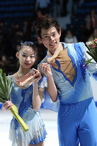 2012 World Junior Yu Xiaoyu Jin Yang